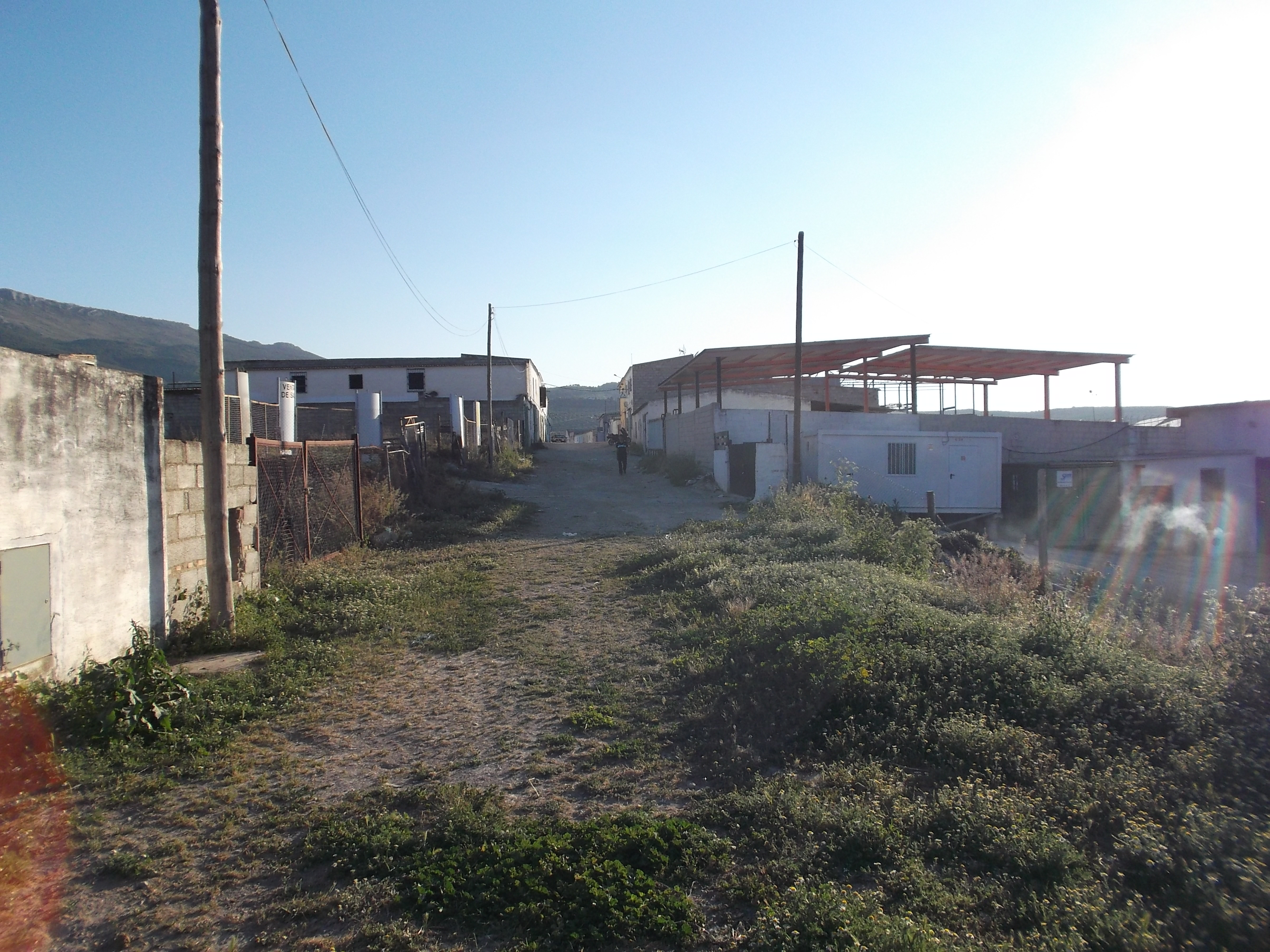 Calle principal de Managua, desde el extremo opuesto a la entrada principal.